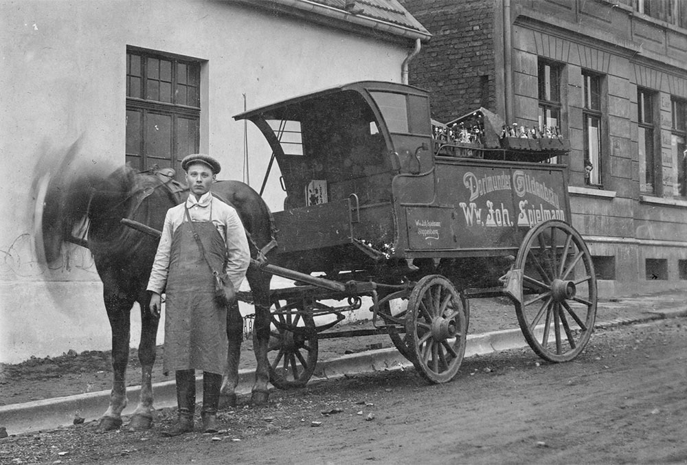 In 1894, Johann Spielmann started a business distributing beverages. Initially, the drinks were transported in wooden barrels by horse carts.